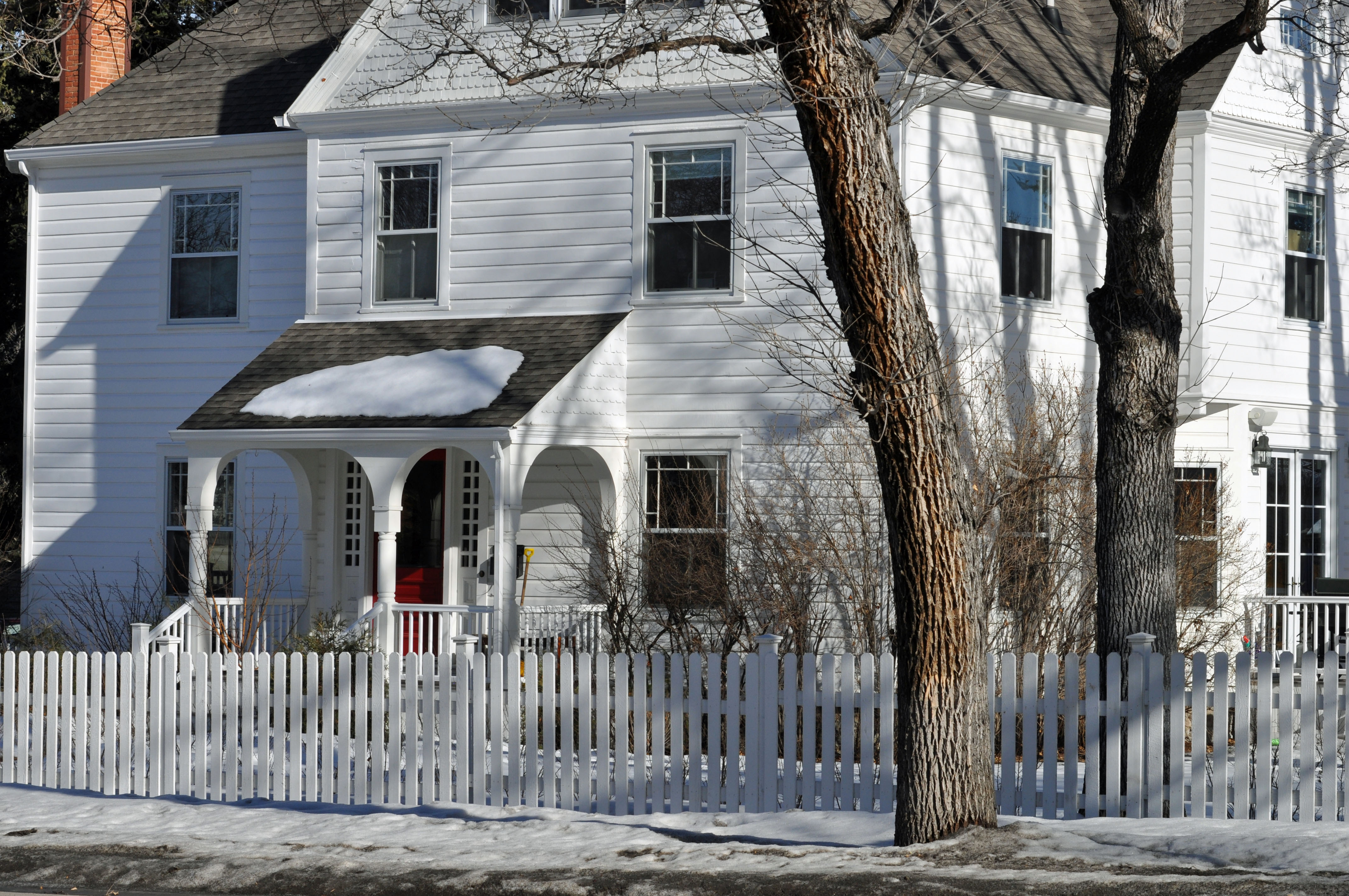 Willson house, 504 Willson Ave, (formerly Central Ave) Bozeman, Montana. House was built in 1886 by Lester S. and Emma D. Willson. Photo taken January 28, 2011